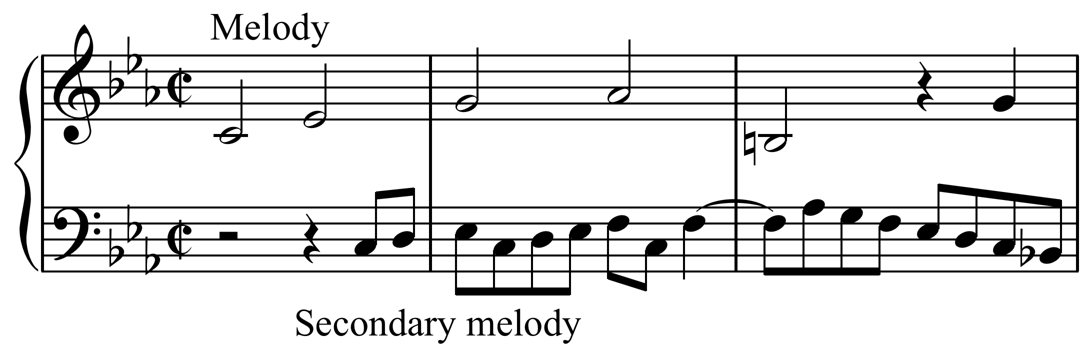 Primary and secondary melodies in the opening of Bach's BWV 1079.